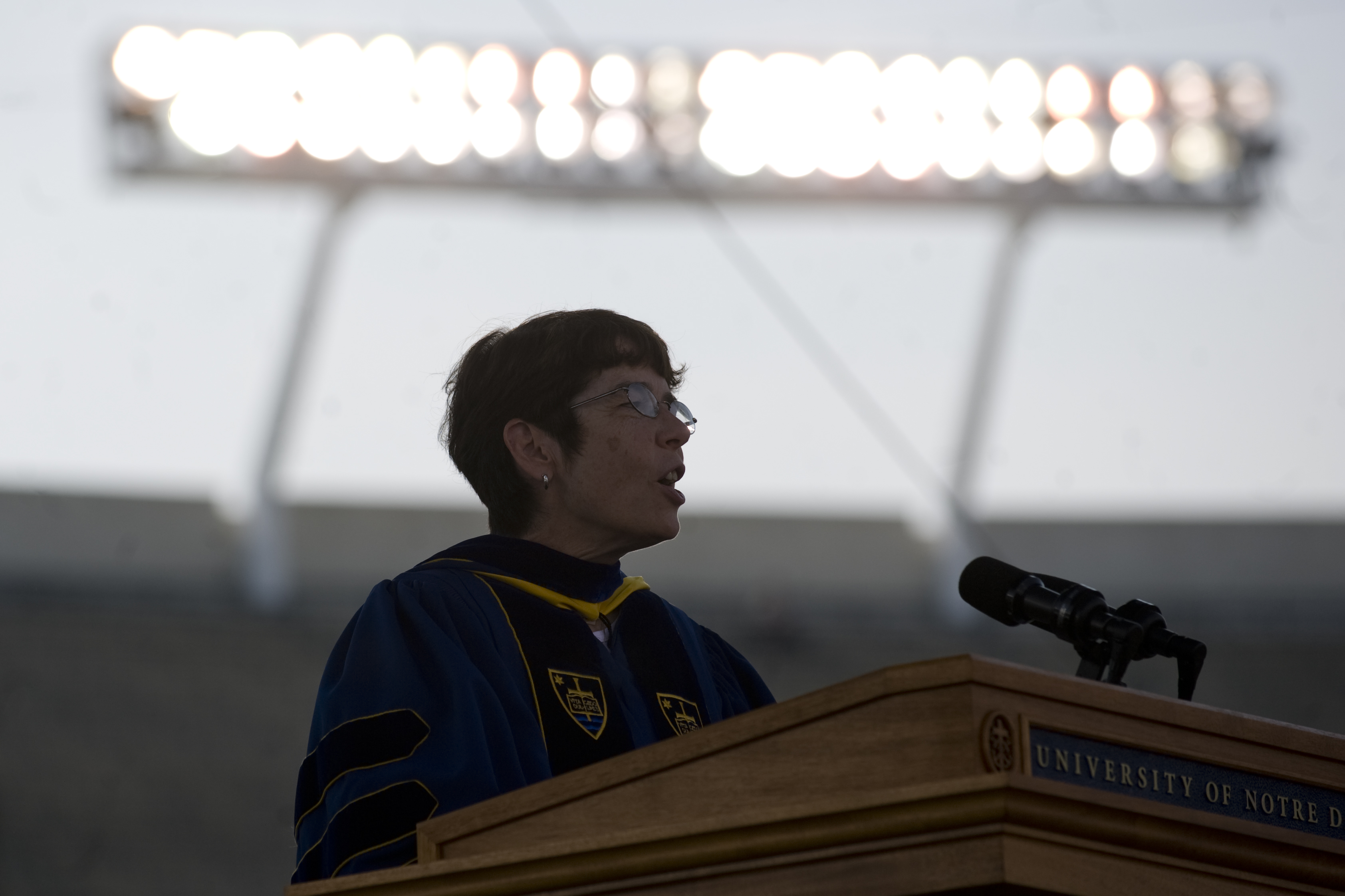 Sister Mary Scullion addresses the University of Notre Dame Class of 2011 during the school's commencement ceremony in South Bend, Ind., May 22, 2011. Scullion is an advocate for homeless and mentally ill people.